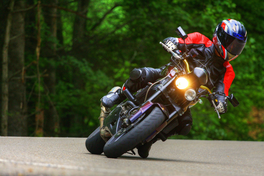 Motorcycle Driver